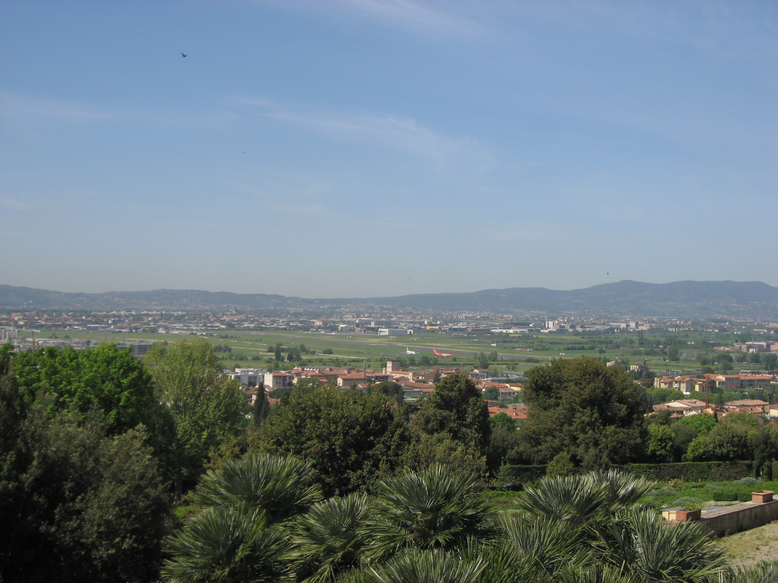 Garden of the Villa la Petraia in Florence with view of the airport Peretola.